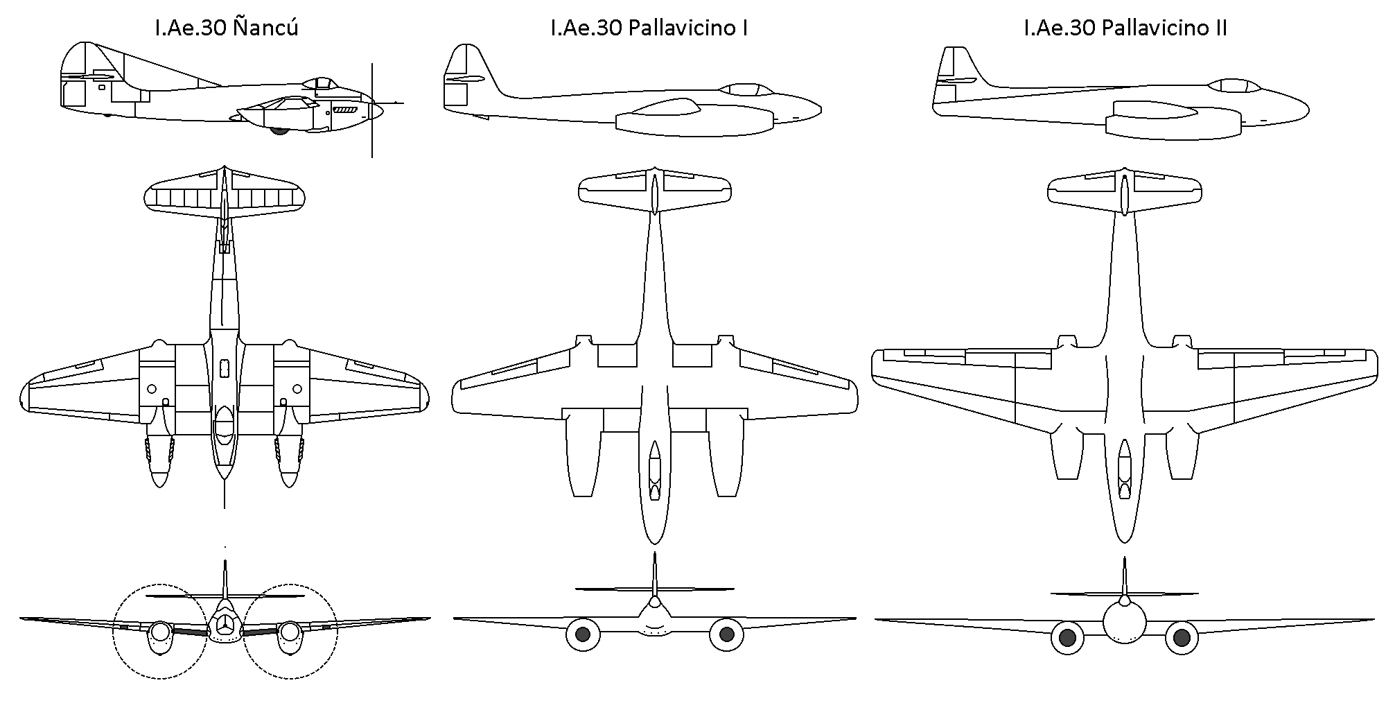 A basic line drawing showing the known major variants of the I.Ae.30